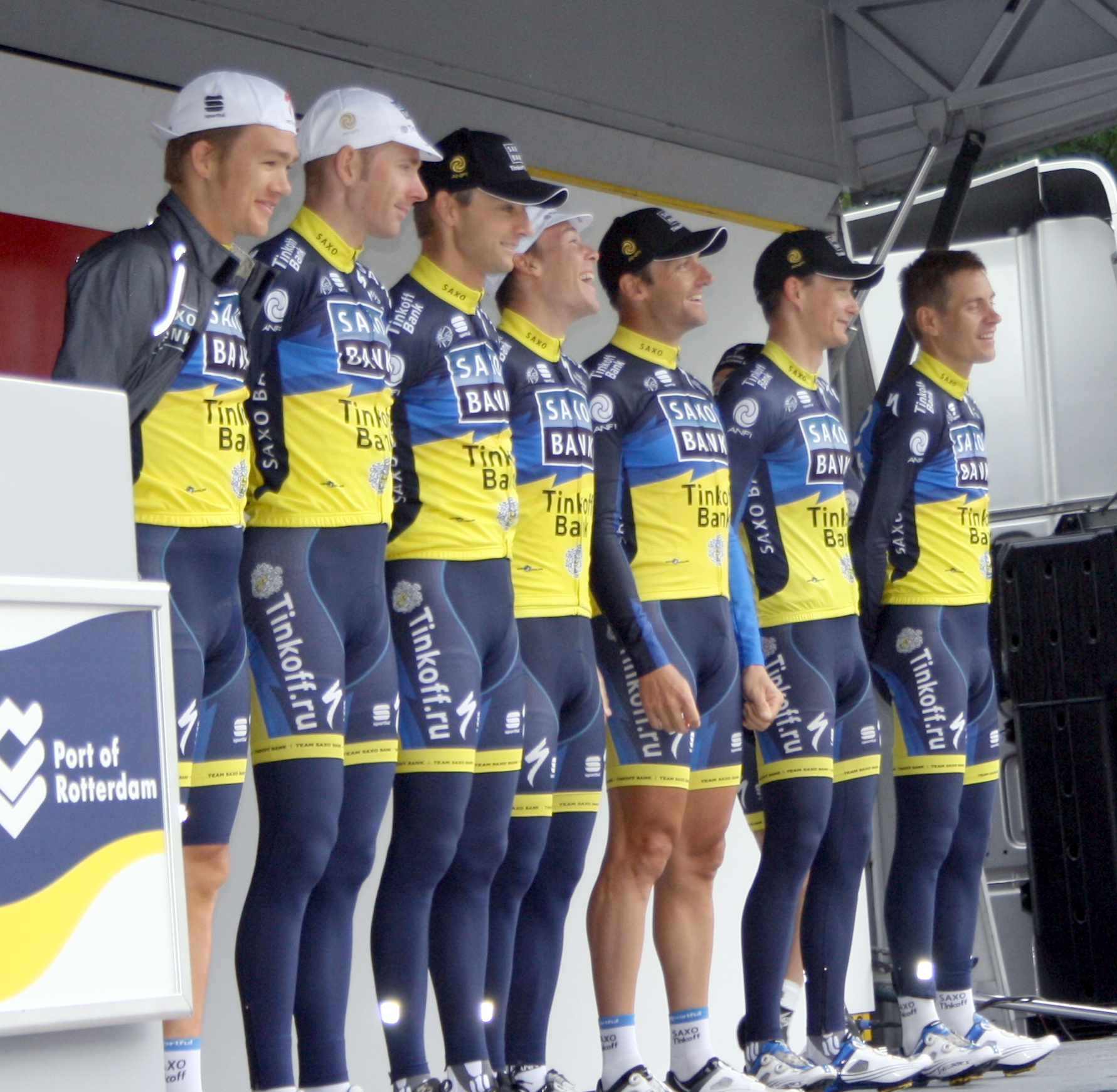 Team Saxo Bank-Tinkoff at the start of the World Ports Classic 2012 in Rotterdam